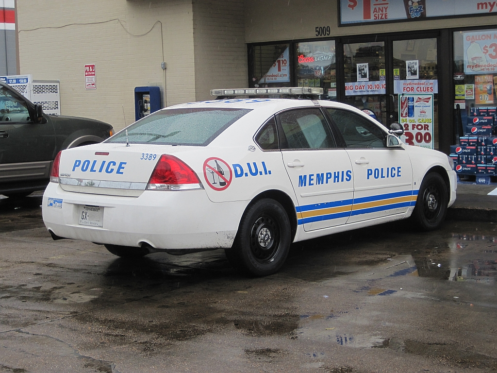 Memphis Police Department (MPD) vehicle. Chevrolet Impala of the MPD D.U.I. Unit.